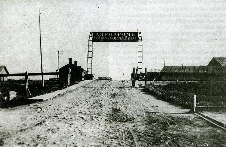 Entrance to the Korpusnoy Airfield, St.Petersburg, Russia, 1913